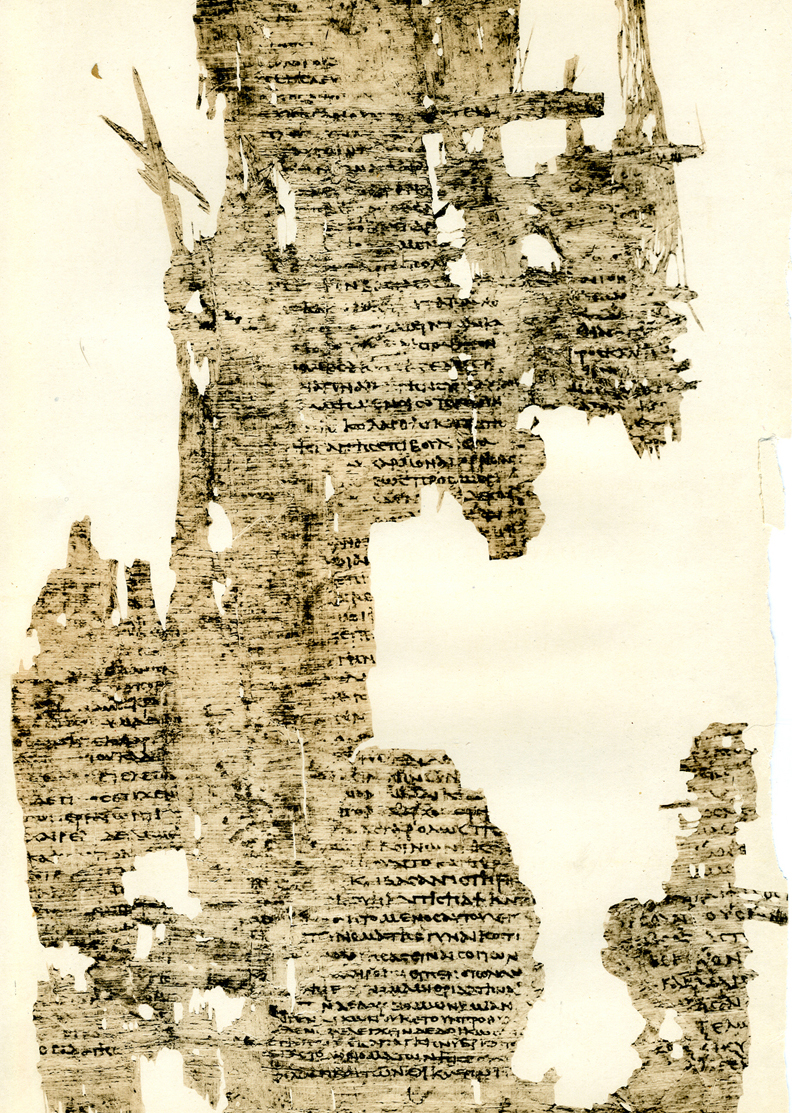 A 2nd or 3rd c. papyrus of Chariton's Callirhoe.